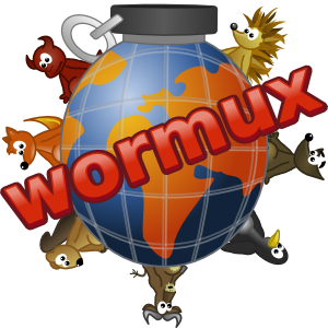 wormux logo